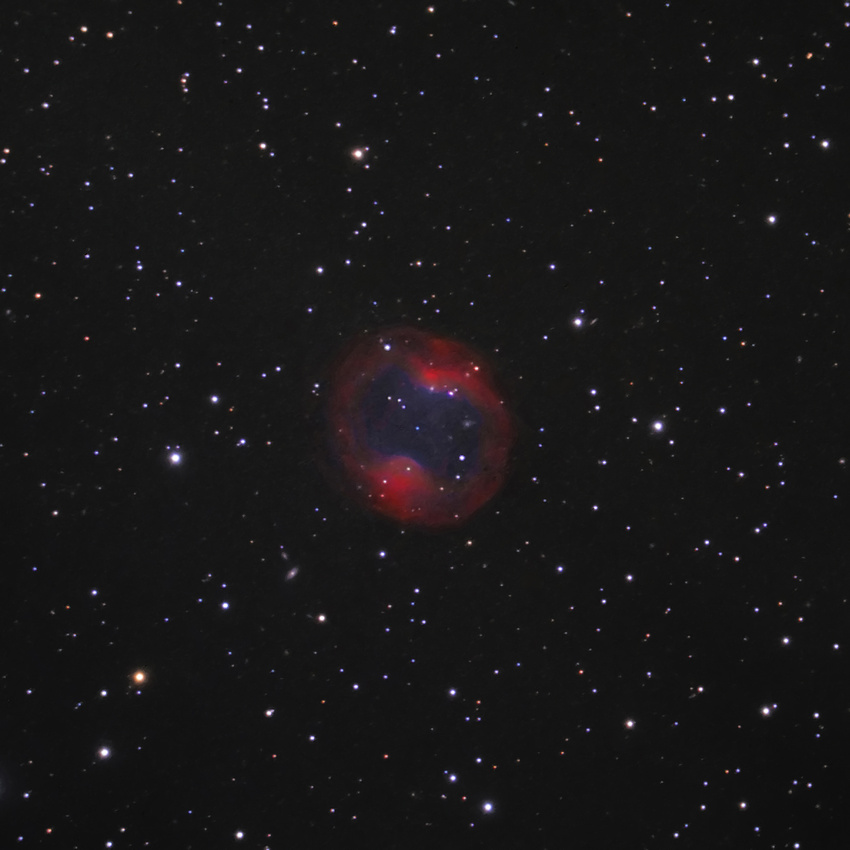 Planetary Nebula Jones-Emberson 1 (PK164+31.1) in Lynx with amateur telescope